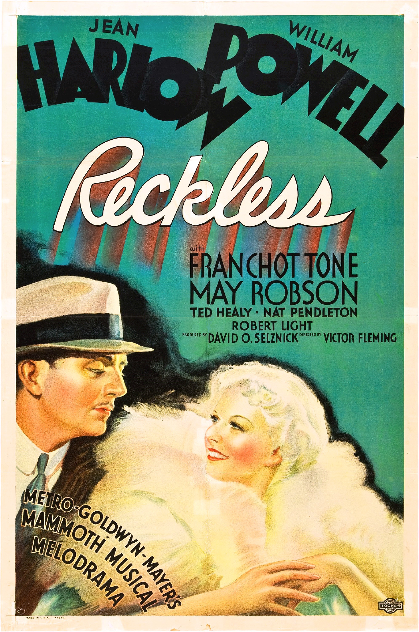 Poster for the 1935 film Reckless. There are no copyright marks on the poster. At bottom left is "C"-for poster version "C", Made in USA #5942. At bottom right is the logo of the Tooker Litho Co.-they printed the poster.